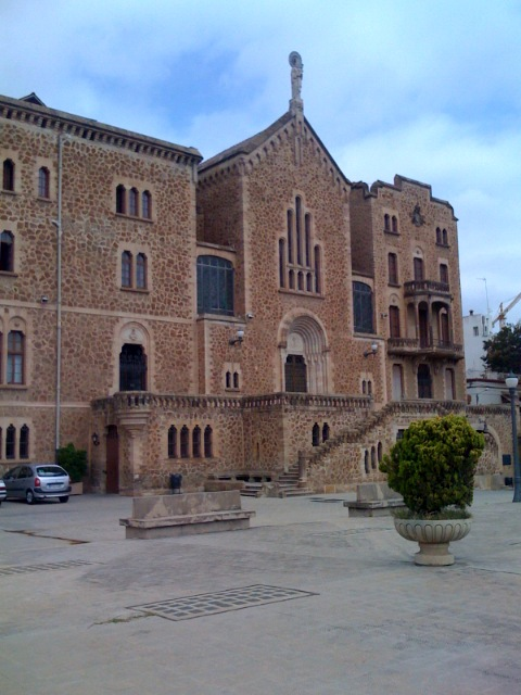 Sanctuari of Sant Josep de la Muntanya, in Gracia - Barcelona (Catalonia)